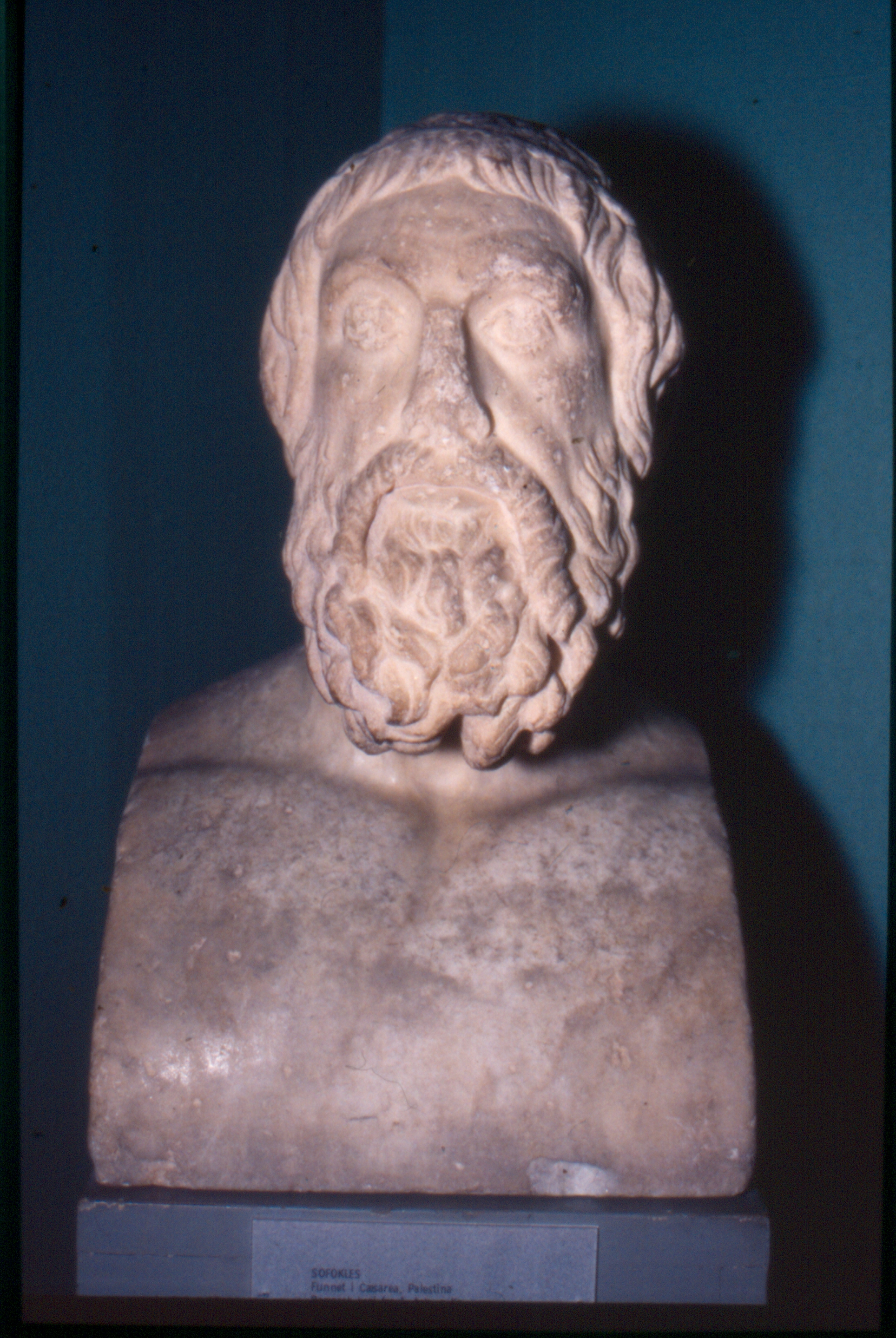 Greek writer Sophocles, bust in National Gallery, Oslo. Century ?